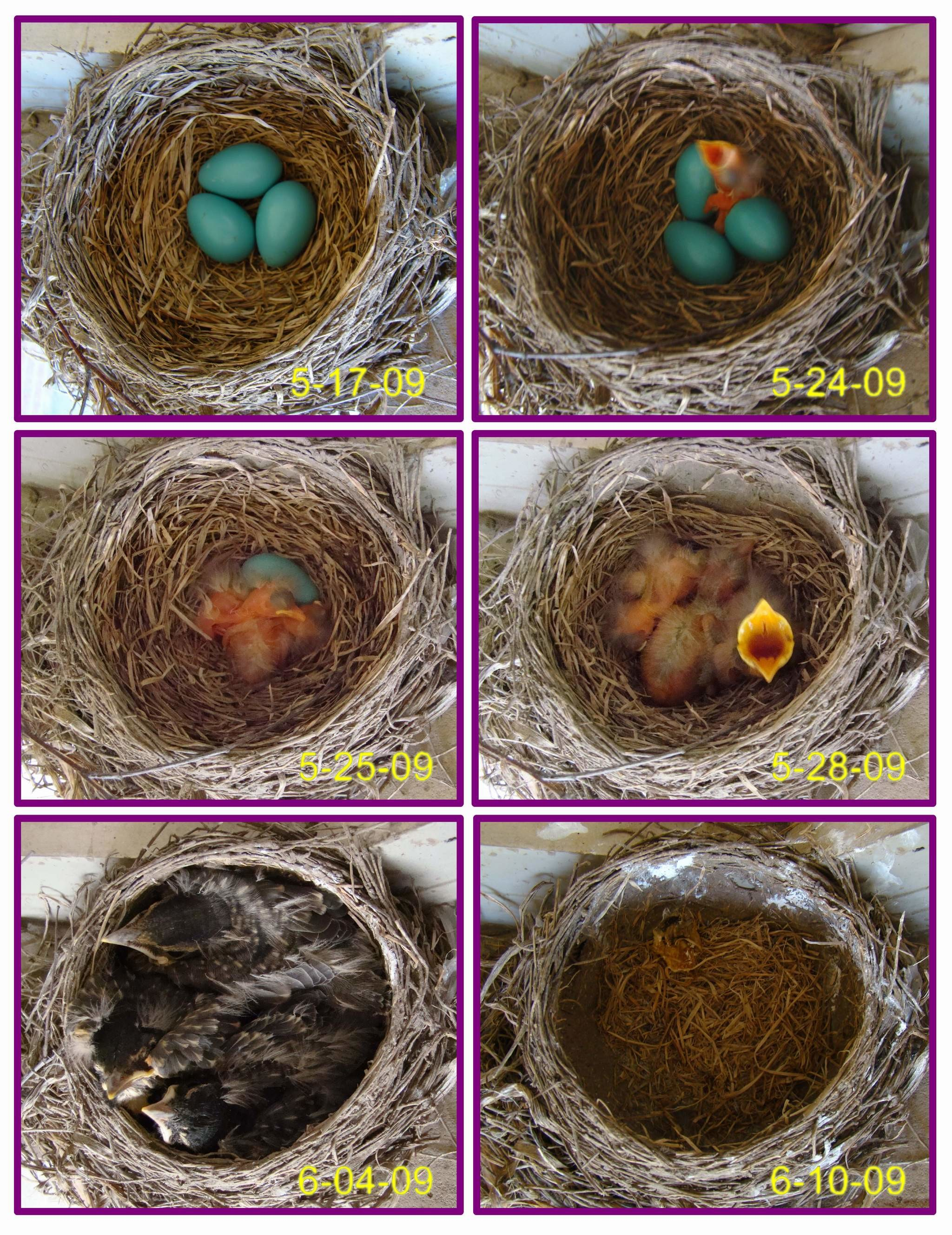 Progress of robin eggs and flying in 3 weeks - by Volkan Yuksel